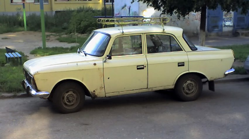 Izh-Moskvitch-412 produced after 1982